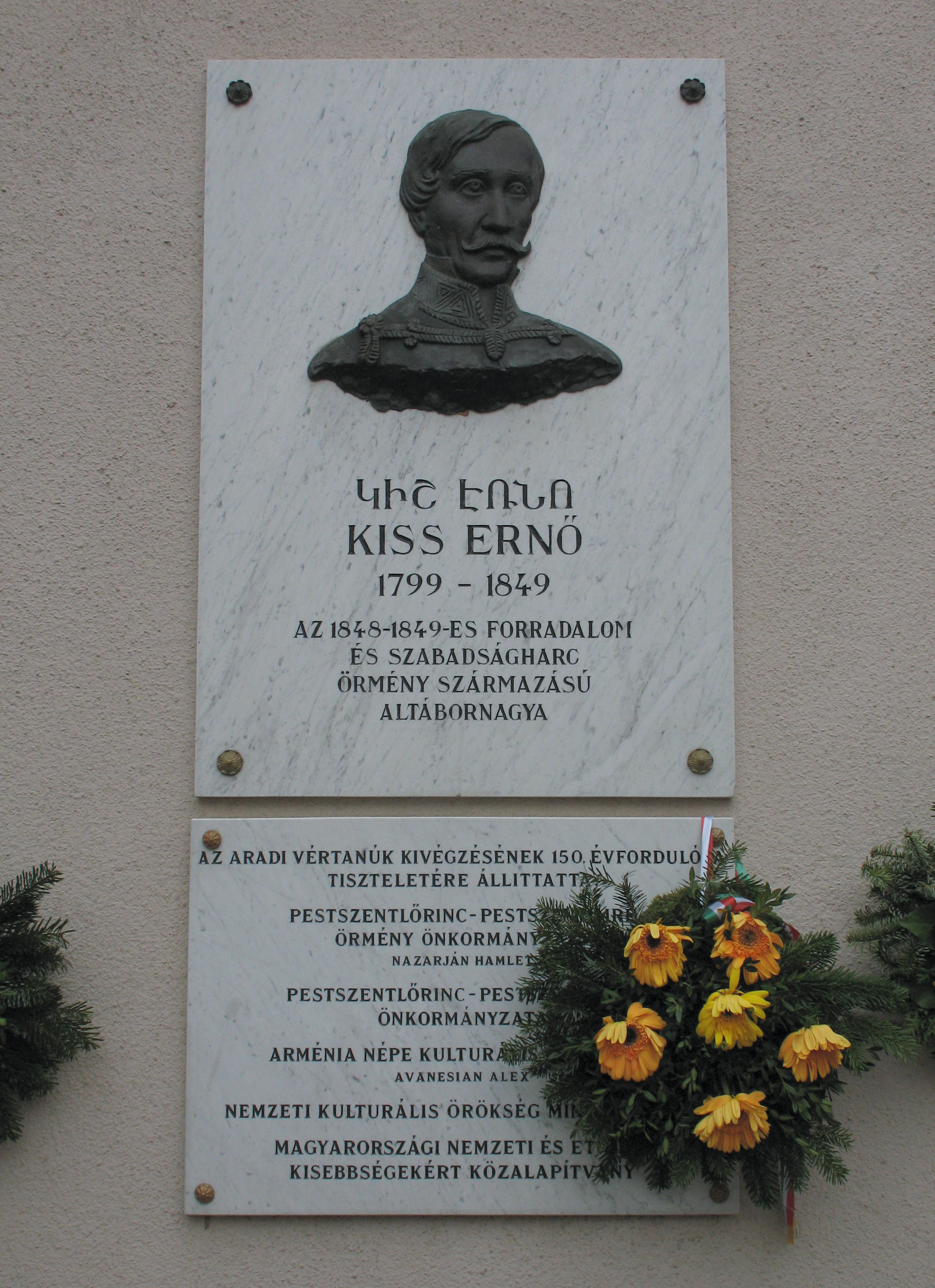 Memorial tablet for Ernő Kiss in Budapest, Hungary